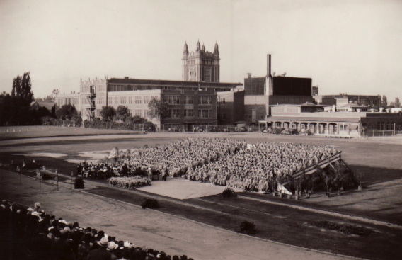 Los Angeles High School Graduating Class of Summer, 1940